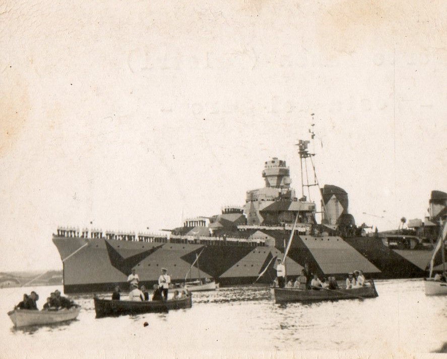 presso porto di Mahon-15-08-44 "Festa del mare"